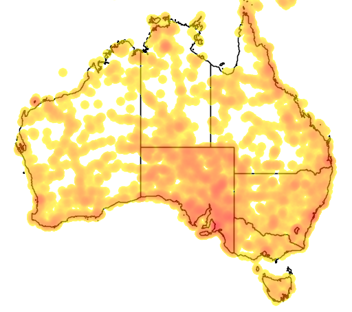 Occurrences of Iridomyrmex species reported to the Atlas of Living Australia as of May 2015